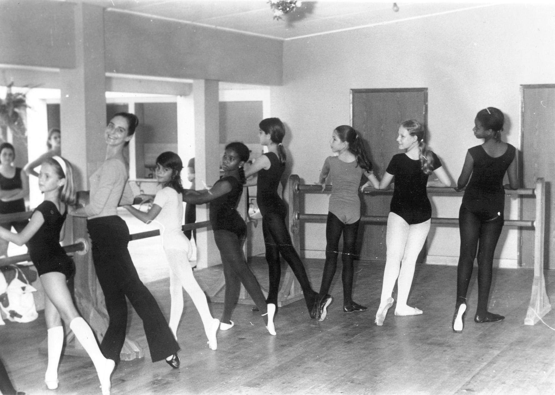 Teresa Mann posing with her first group of students in 1964 in Panama.